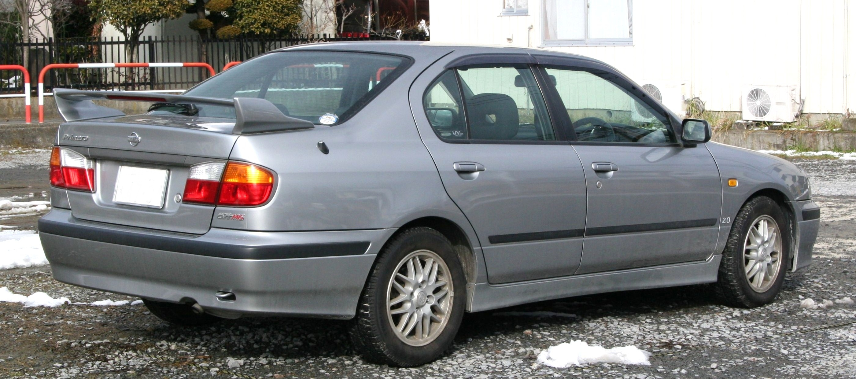 Nissan Primera